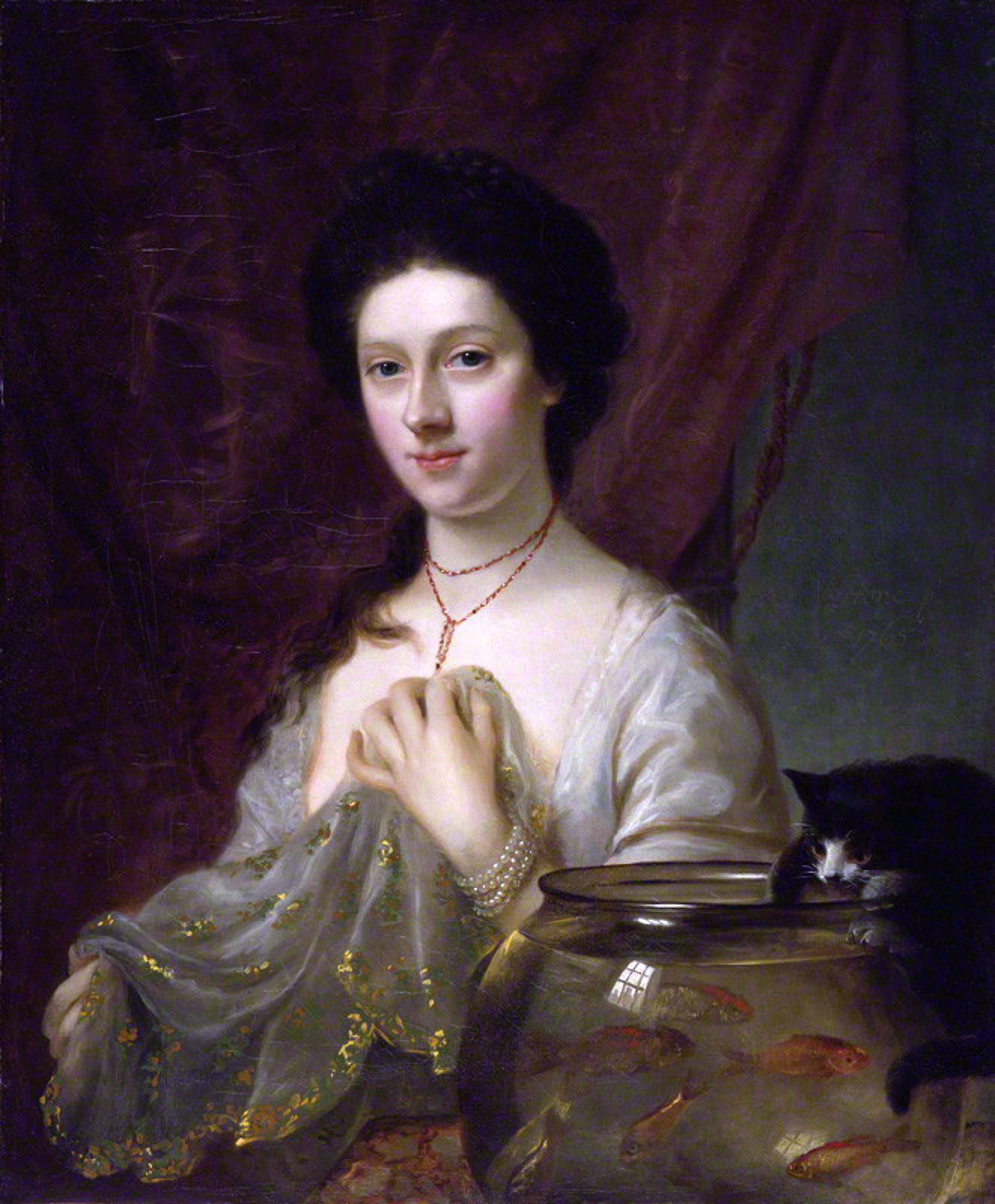 Portrait of Catherine Maria Kitty Fisher, actress and courtesan of the 18th century